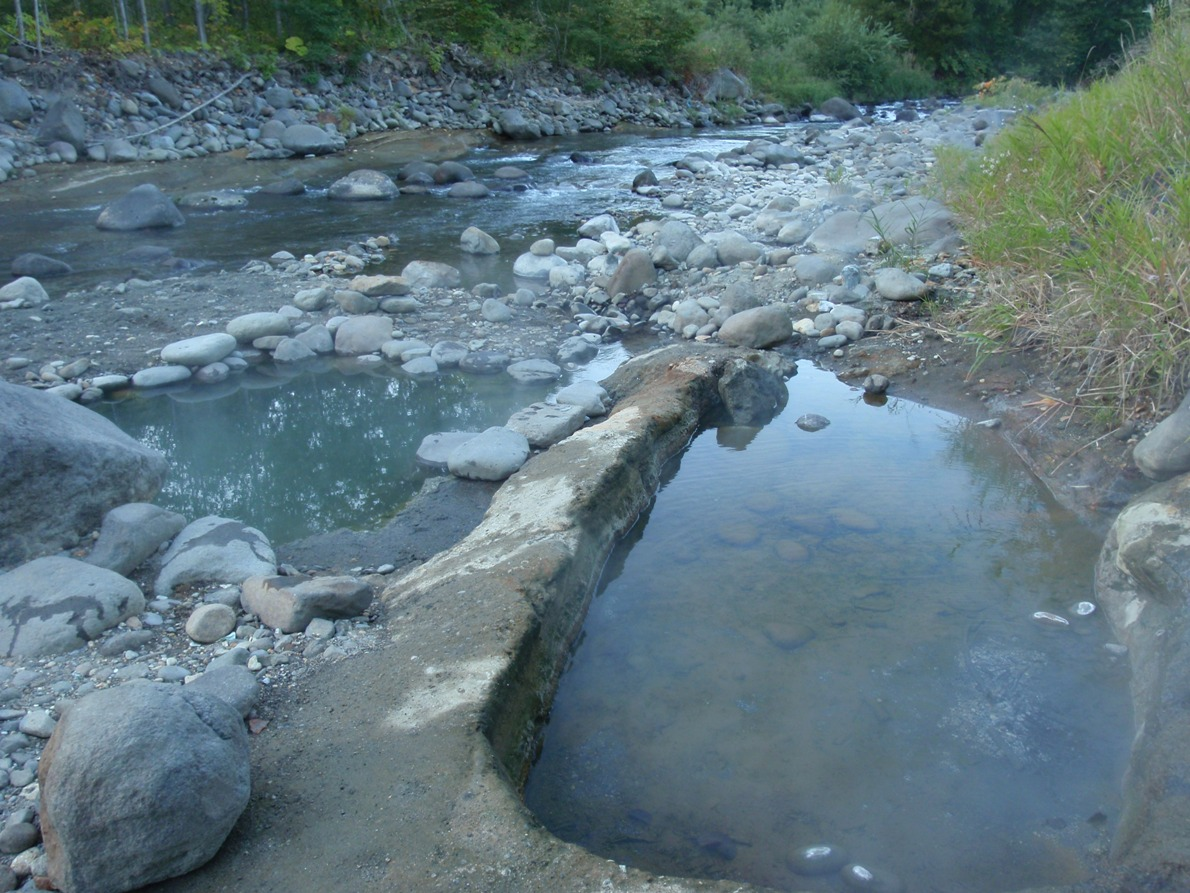 Osaru no yu, Bankei Spa in Sobetsu, Hokkaido